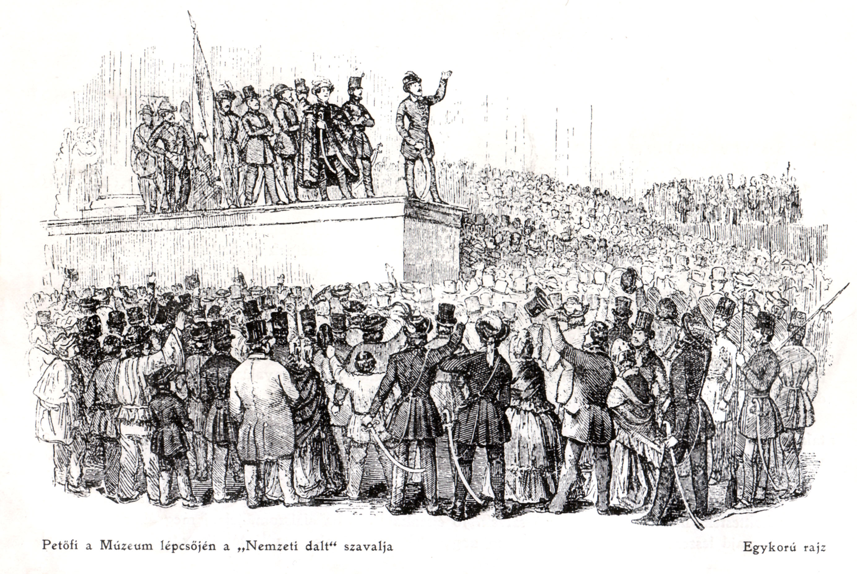 Petőfi on Mar. 15, 1848, contemporary drawing Petőfi album edited by the newspaper Pesti Napló, 1908 - scanned by Takkk Unknown author, published more than 70 years ago, scanned under a public domain licence